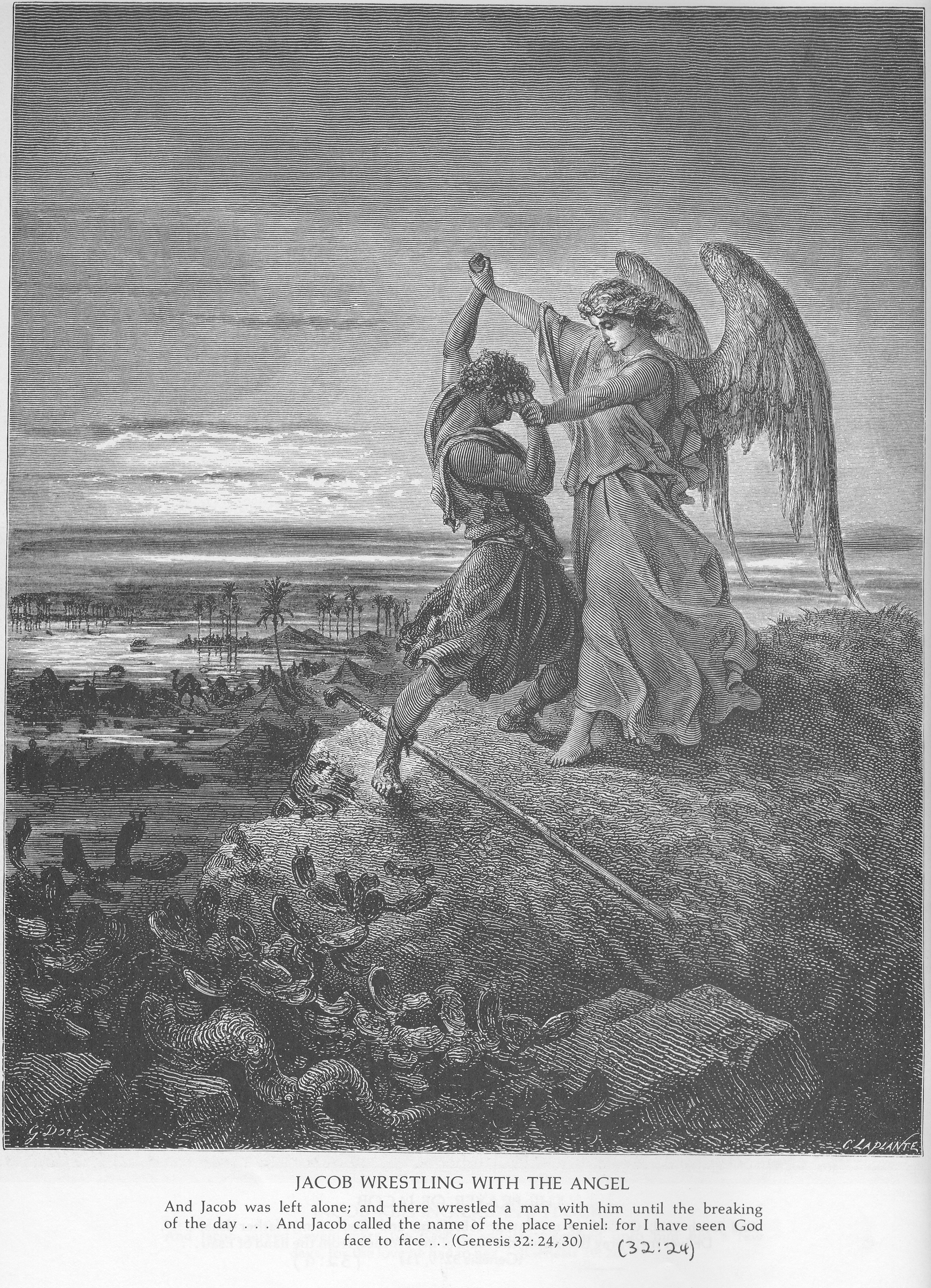 The wrestle of Jacob, in an original high-resolution format.